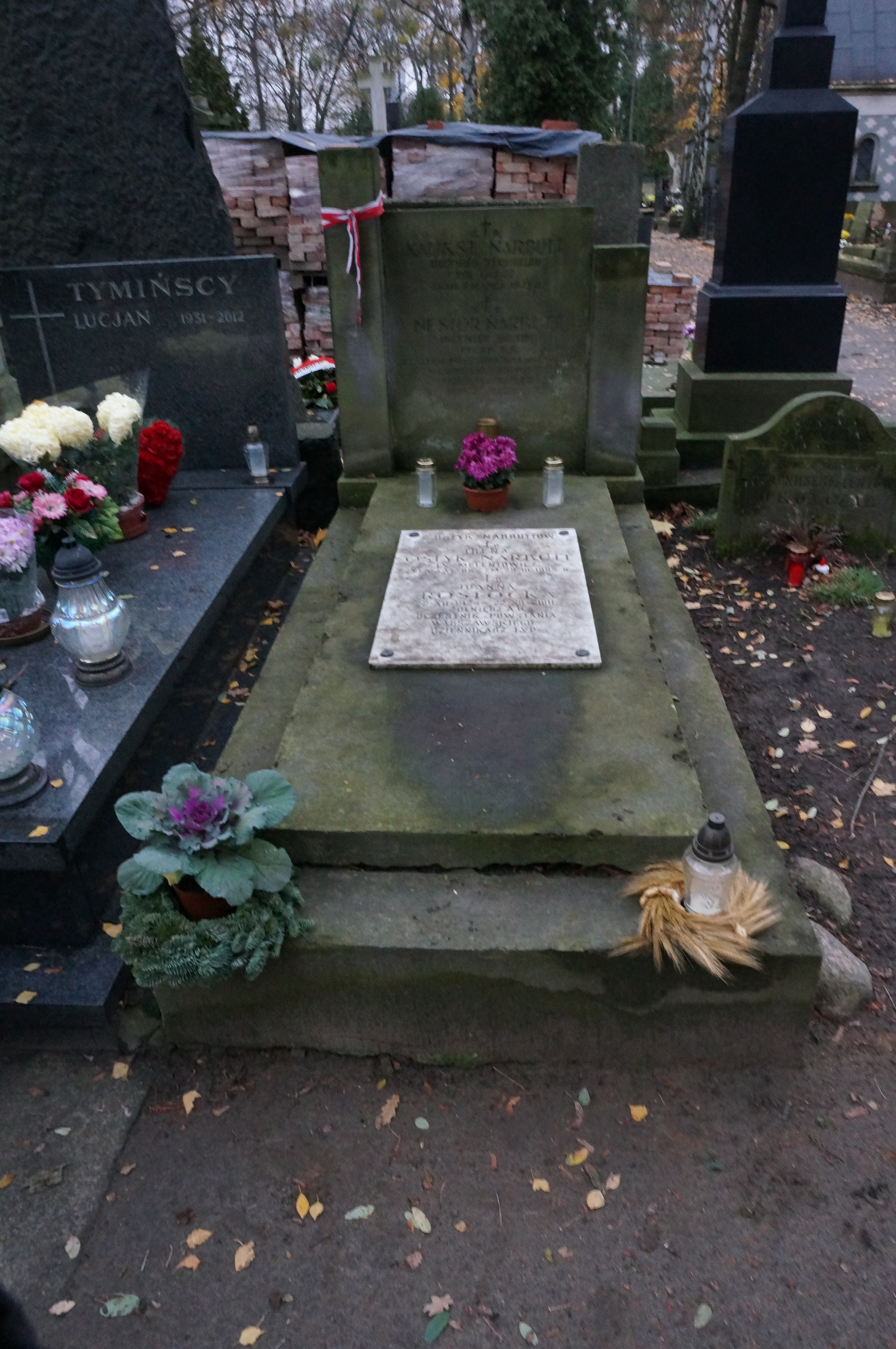 The grave of Joanna Rostocka at the Powązki Cemetery (section T, row 2, grave 16)